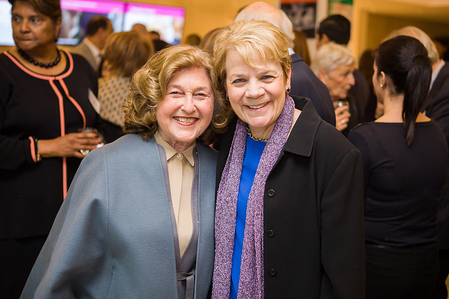 L-R: - Rheda Becker (TFA Baltimore Board Member) - Marin Alsop (Music Director, Baltimore Symphony Orchestra)